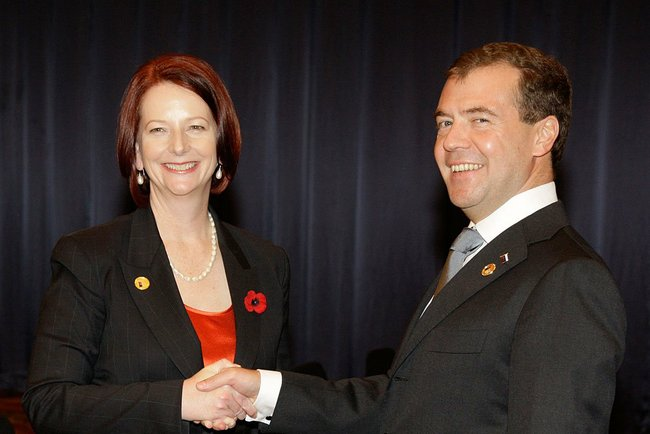 With Prime Minister of Australia Julia Gillard.